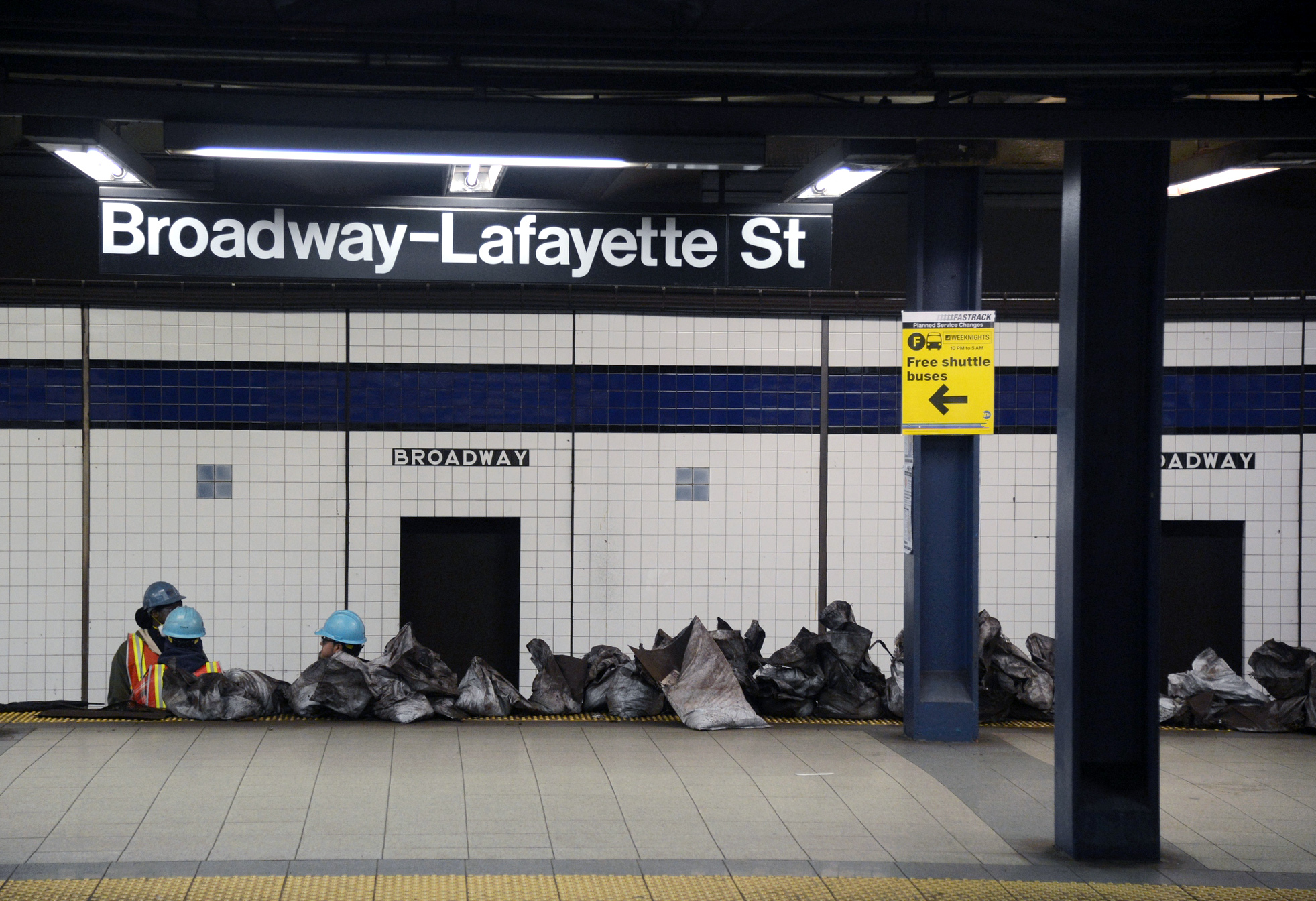 FASTRACK along the F line on Wed., February 26, 2014. Clearing the roadbed at Broadway-Lafayette St. Photo: Marc A. Hermann / MTA New York City Transit